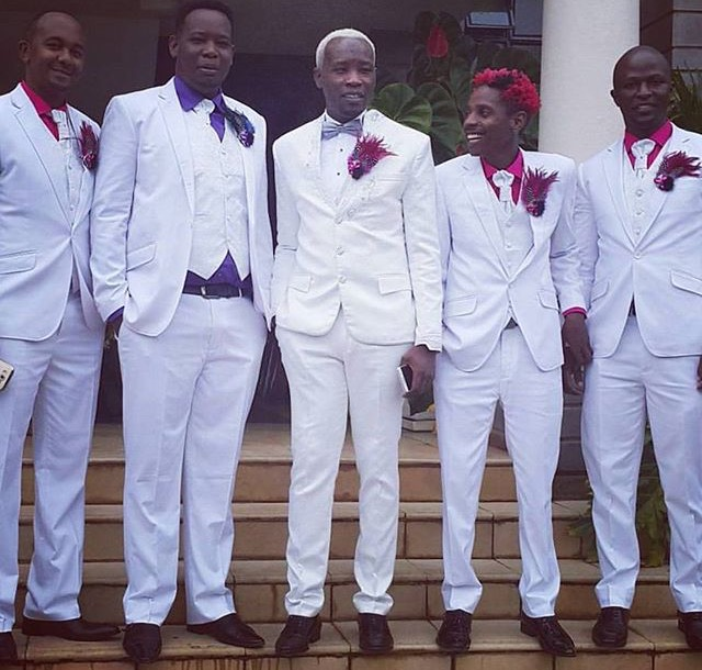 wedding photo